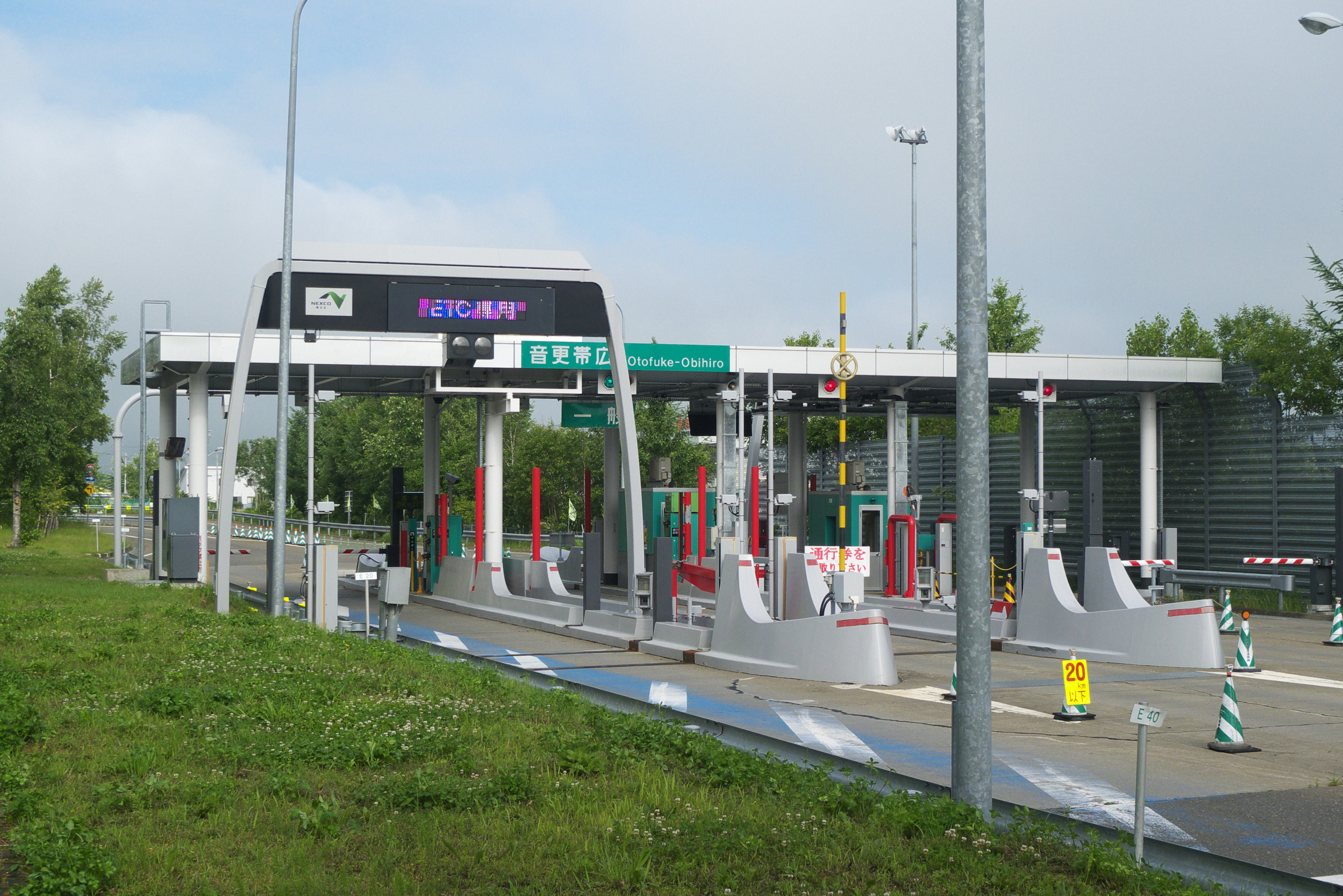 Doto Expressway Otofuke-Obihiro Interchange